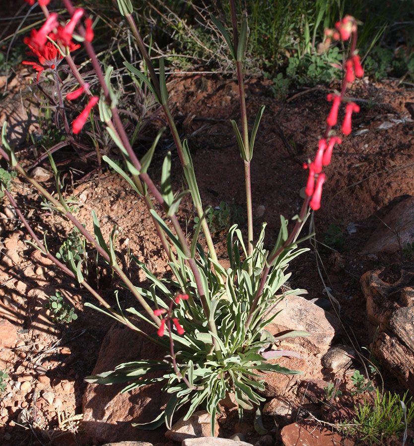 Utah Penstemon (Penstemon utahensis) Basal leaves, form, Zion National Park, April 2016